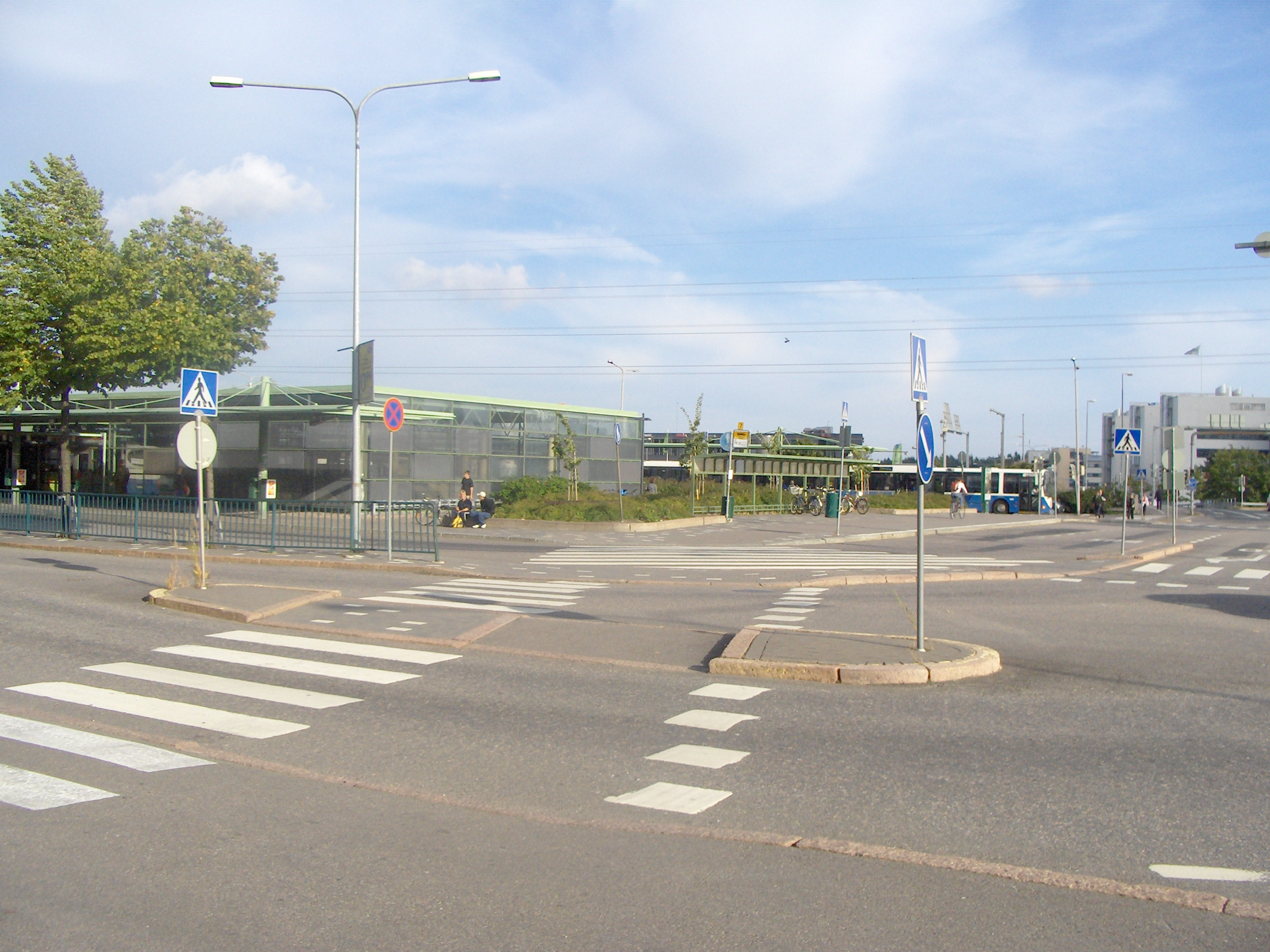 Herttoniemi metro station in Helsinki, Finland